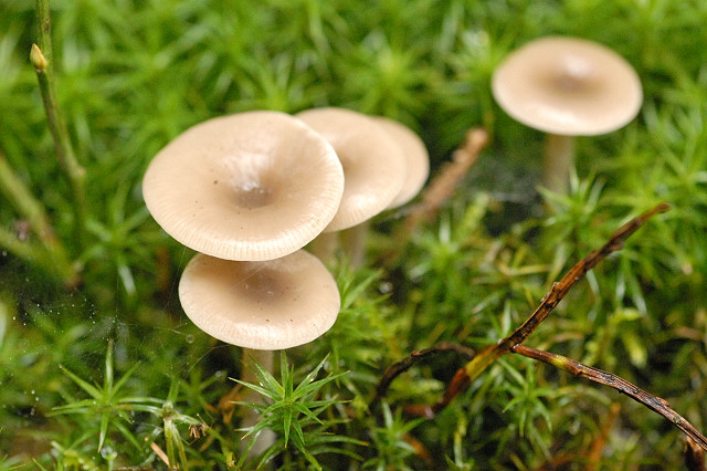 Clitocybe vibecina from Commanster, Belgium. If you think this is a different taxon, please contact James Lindsey.